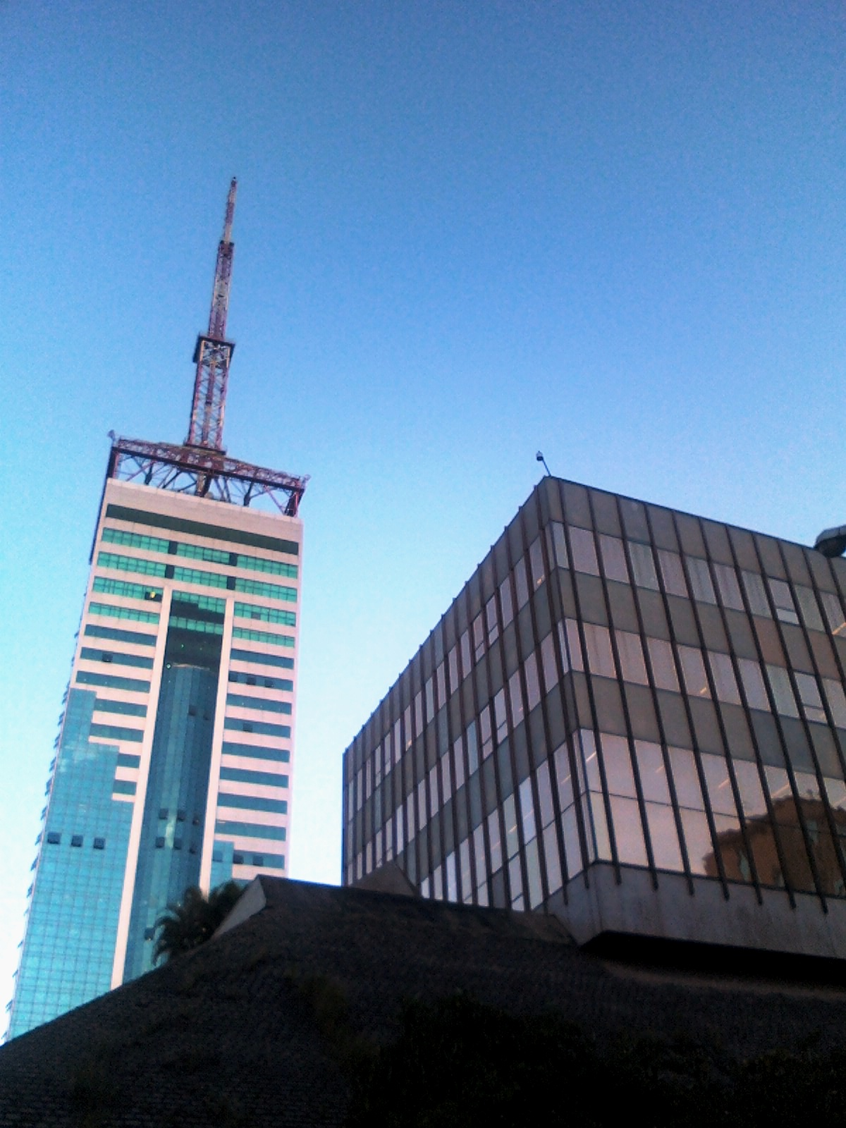 UNIP University and Operational control center (CCO) of São paulo´s Subway.